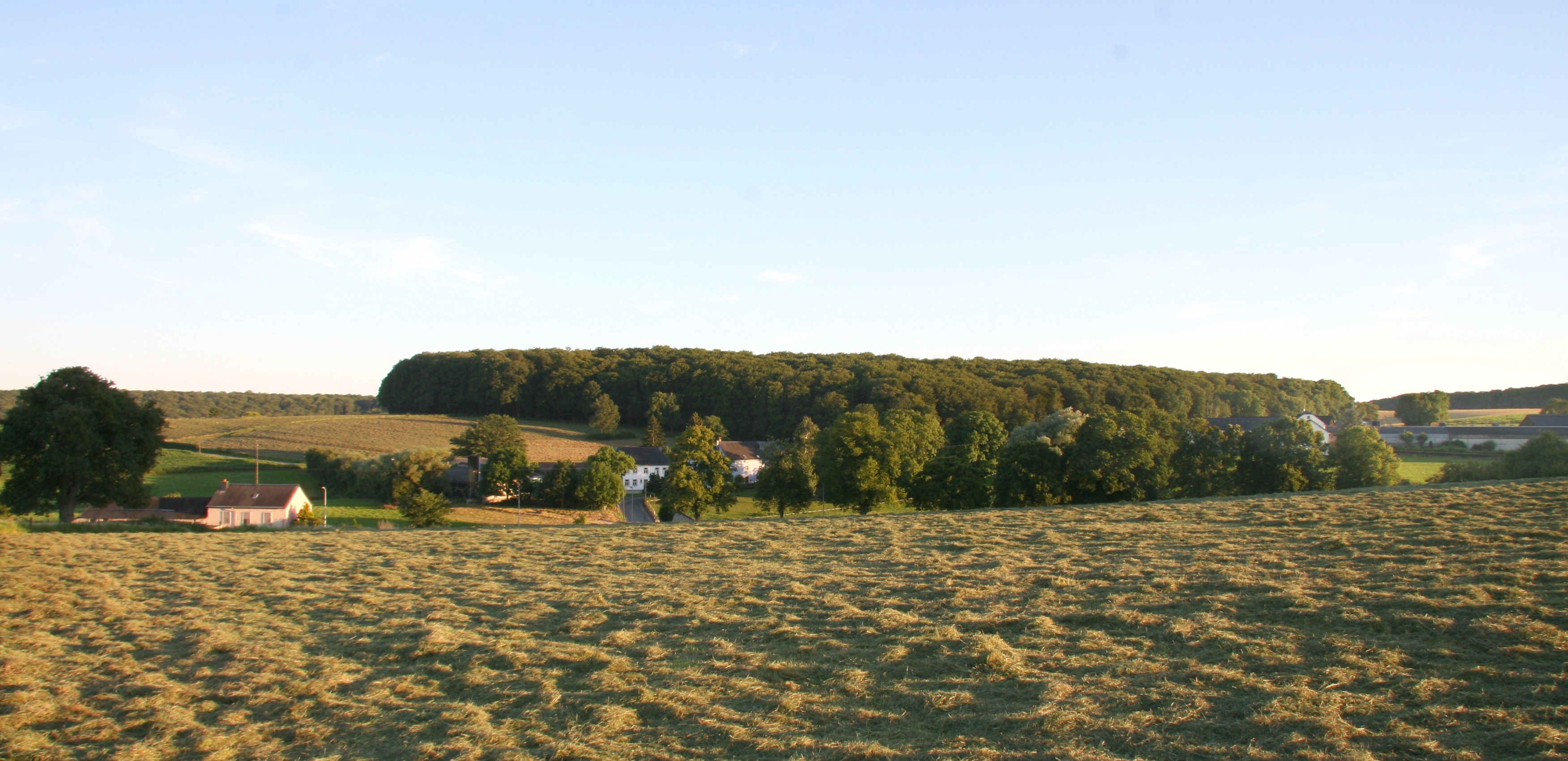 The village of Weidig/Weydig in Luxembourg